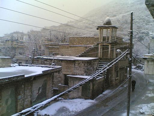 Winter in the village of Deirmama, Masyaf, Hama Governorate, Syria. The old mosque is covered with snow.